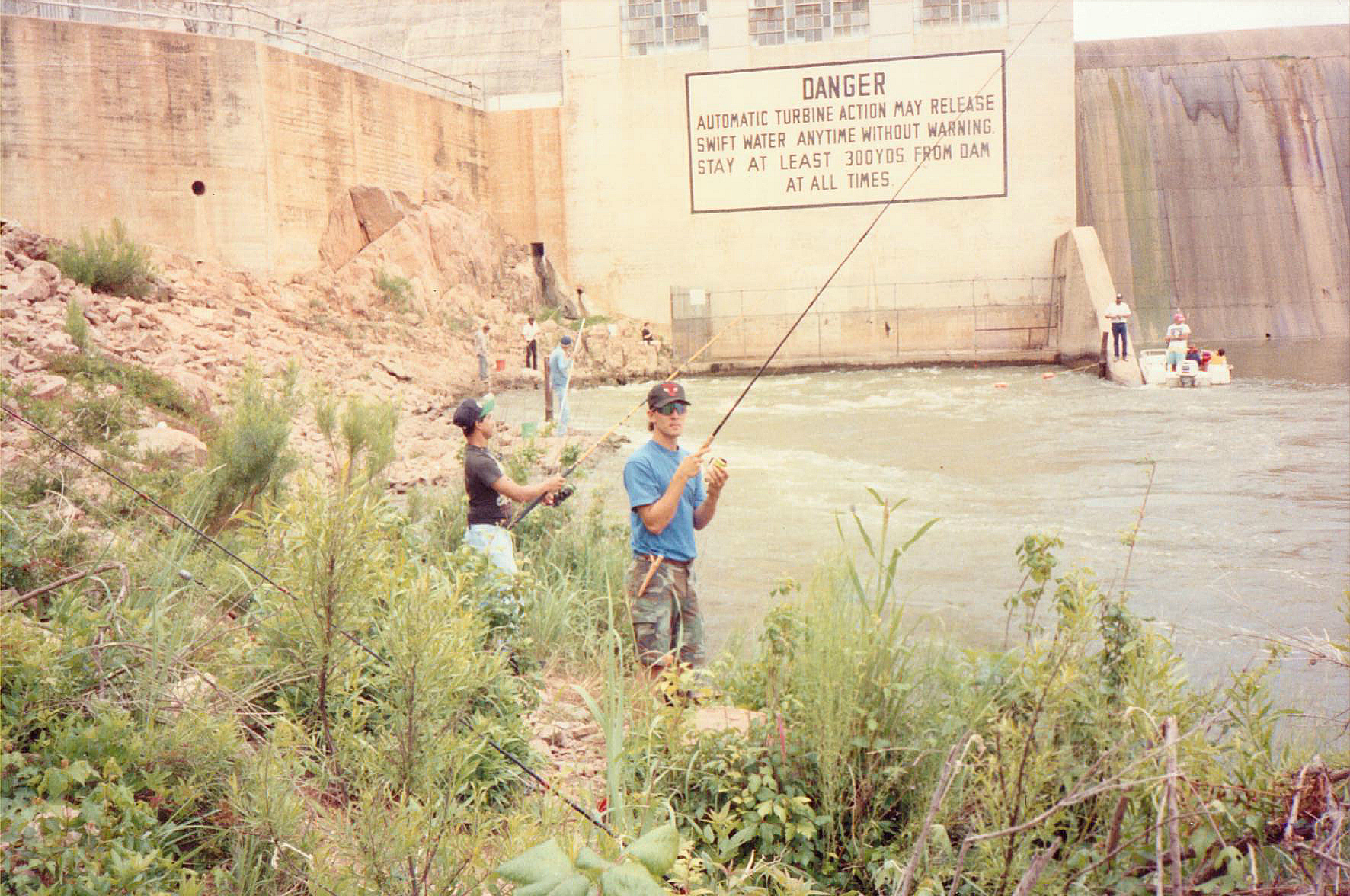 Fishing in the the tailrace at Inks Dam on Lake LBJ.